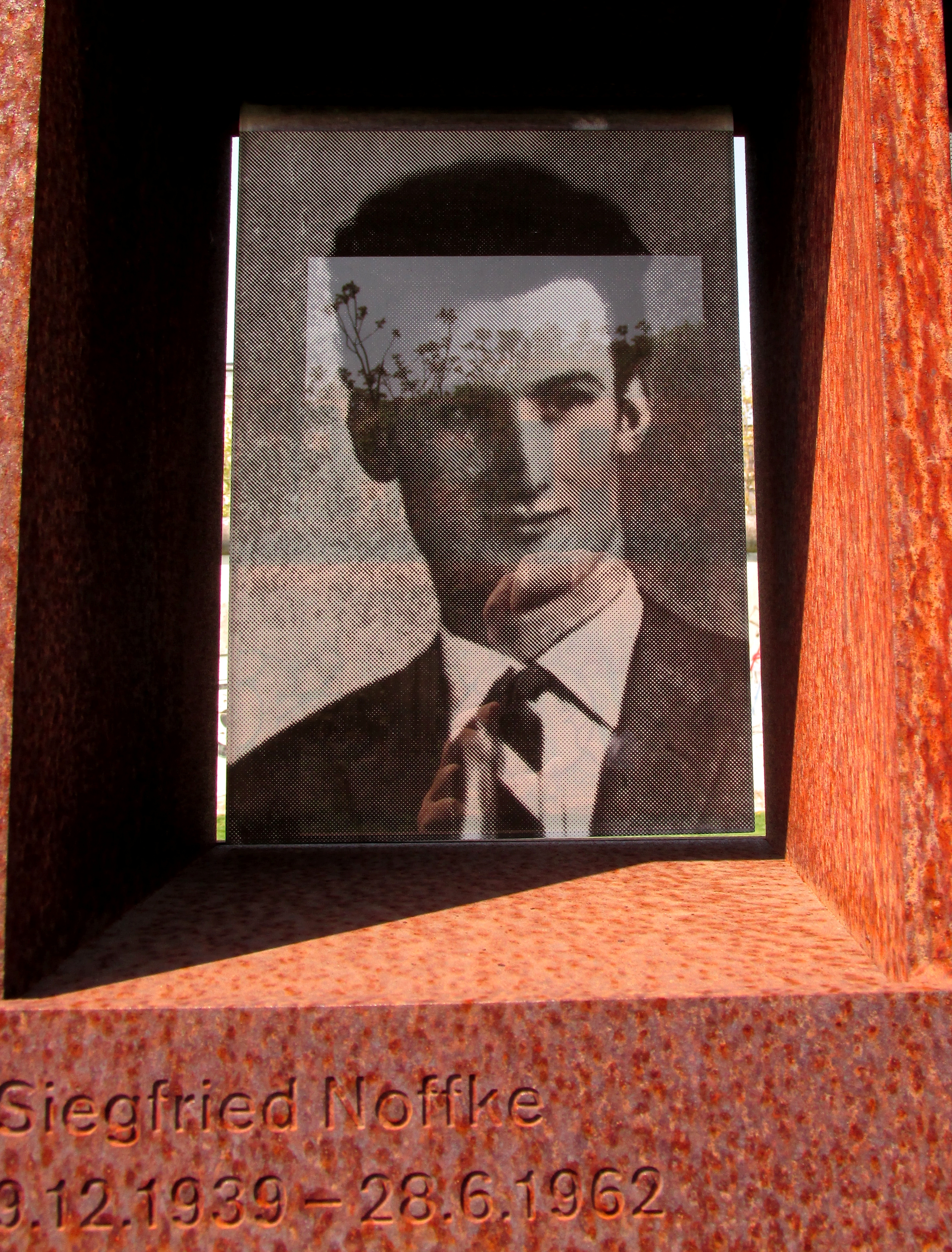 Siegfried Noffke's photo. I took the picture myself at the Berlin Wall Memorial on Bernauer Strasse, in Berlin